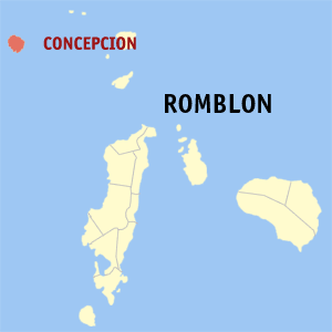 Map of Romblon showing the location of Concepcion